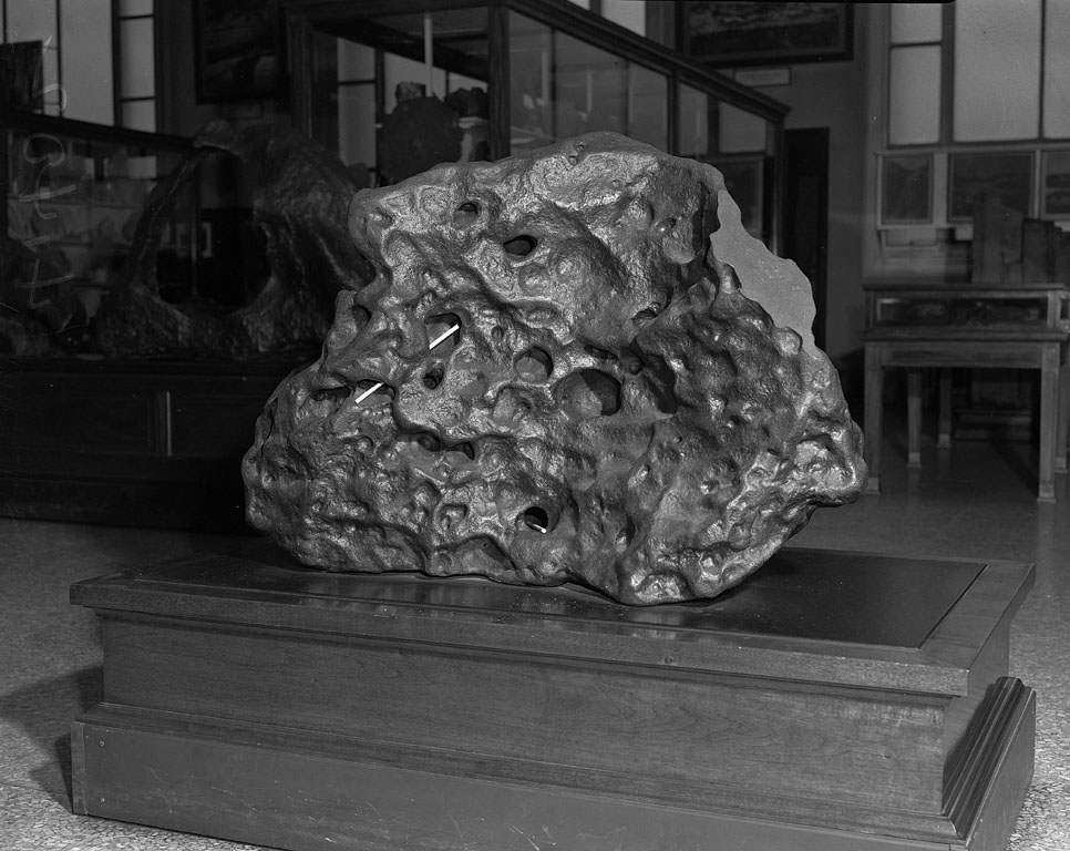 1945. The Goose Lake meteorite was found by three men from Oakland, California, out hunting on October 13, 1938. Although it was catalogued into the collection of the US National Museum in 1939 (Acc.#1332), it remained in California until 1941 -- where it was displayed at the Golden Gate International Exposition in San Francisco. It reached Washington on January 17, 1941, and went on display in the meteorites hall at some point thereafter. The hall was dismantled in the mid-late 1950s, as part of the Exhibits Modernization Program. The meteorite is still on display today.